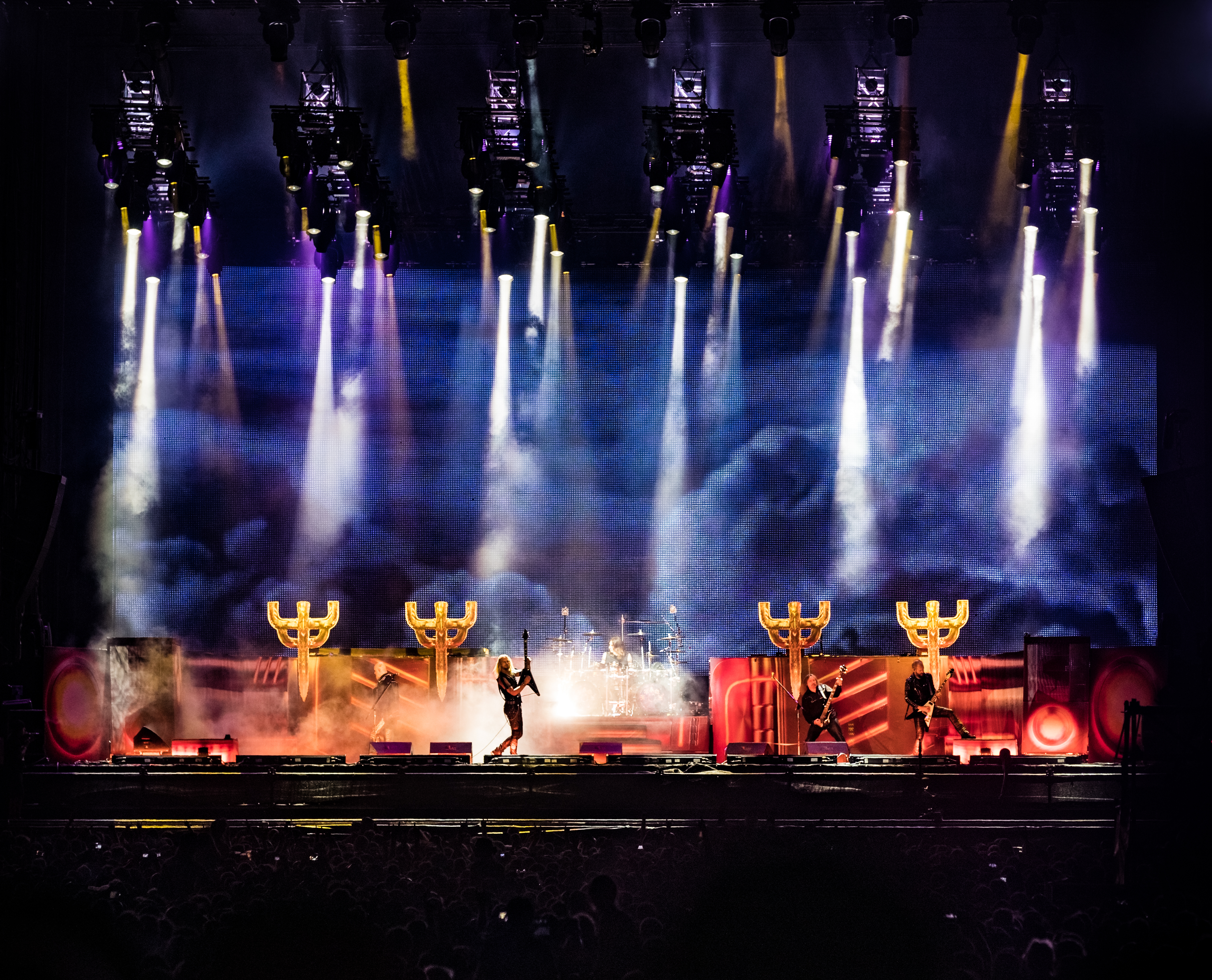 Judas Priest - Wacken Open Air 2018